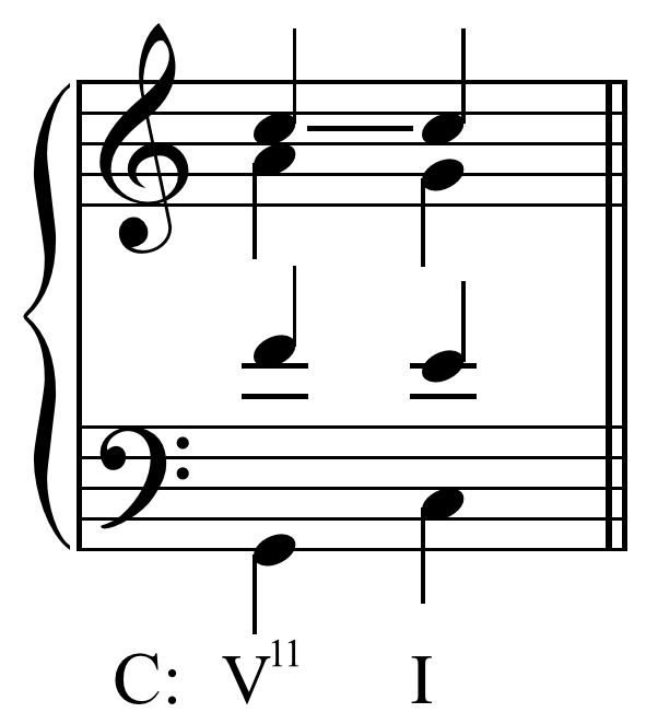 Voice leading for dominant eleventh chords in the common practice period.